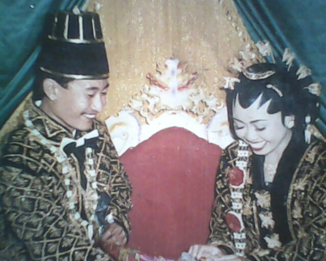 Indonesian has a beautiful culture of marriage. The traditional clothes From Solo, Middle Java is one of the well-known in the world when Indonesian marry. Combination of beauty and pure, the clothes was a memorial when it use in traditional ceremony. This photo has been taken in the country: Indonesia